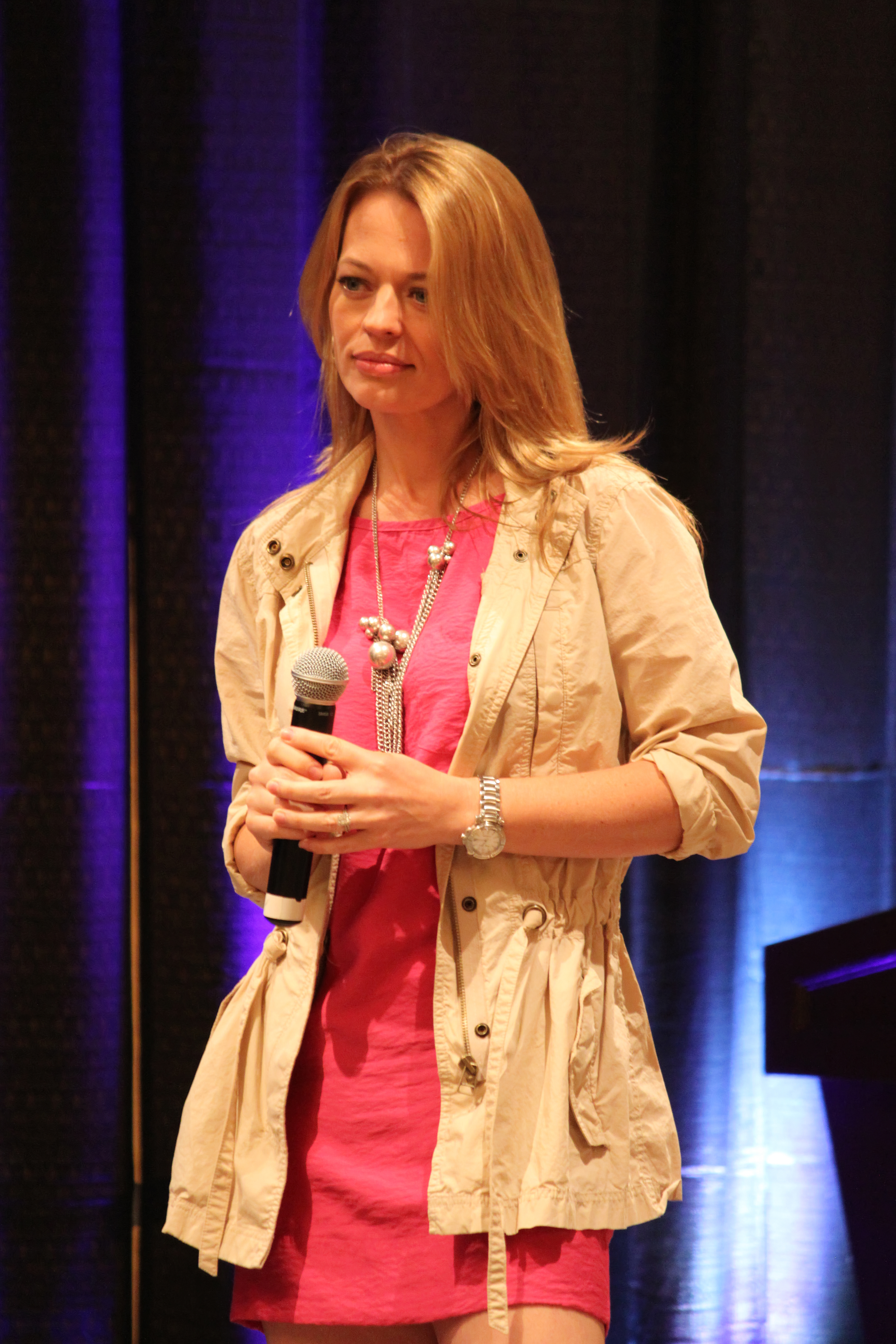 Jeri Ryan at the 2010 Creation Star Trek Convention at the Hilton Hotel in Parsippany, New Jersey. Among her many lifetime awards are 1989 Miss Illinois and the 2001 Saturn Award for Best Supporting Actress on Television in her role on Star Trek Voyager. Ryan is a 1990 graduate of Northwestern University in Evanston, Illinois.